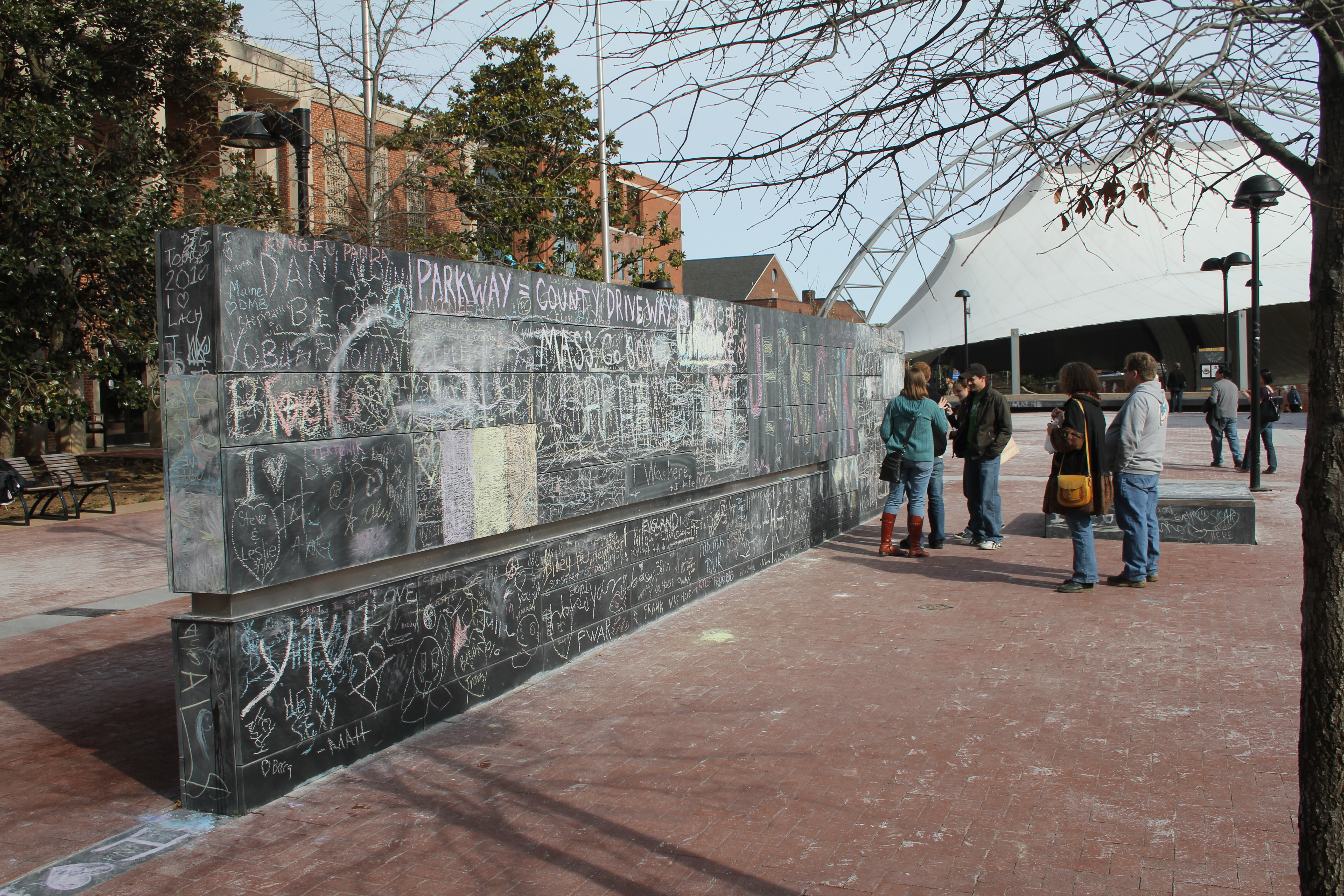 Photograph of the Free Speech Wall in Charlottesville, VA taken using a Canon EOS REBEL T2i